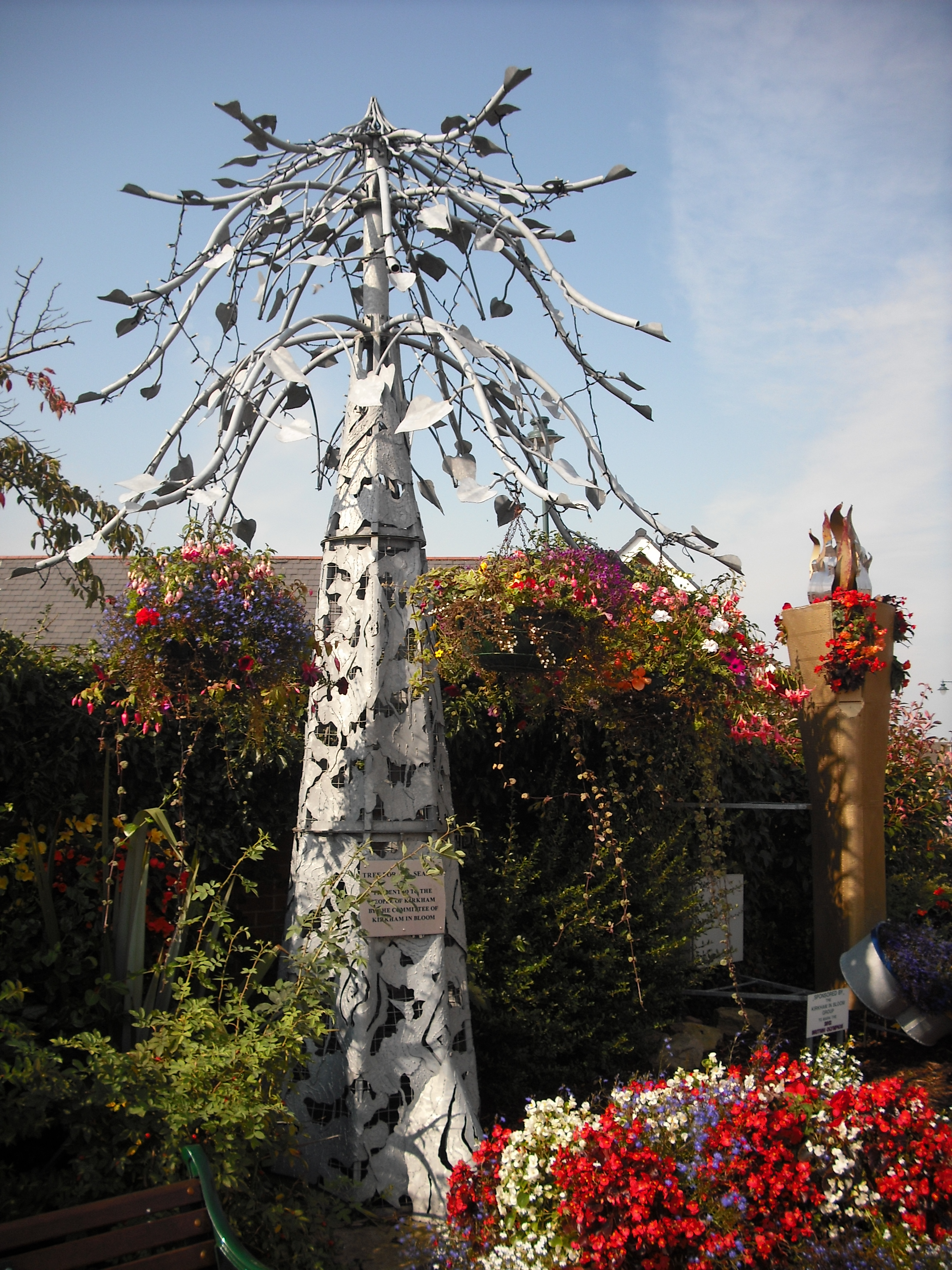 Floral display ("Four Seasons" sculpture), Poulton Street, Kirkham, Lancashire